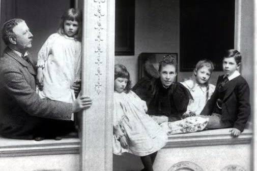 Family Cherry-Garrard of Lamer Park. F.l.t.r: Apsley sen. (father), Mildred, Elsie, Evelyn (mother), Ida and Apsley jun.